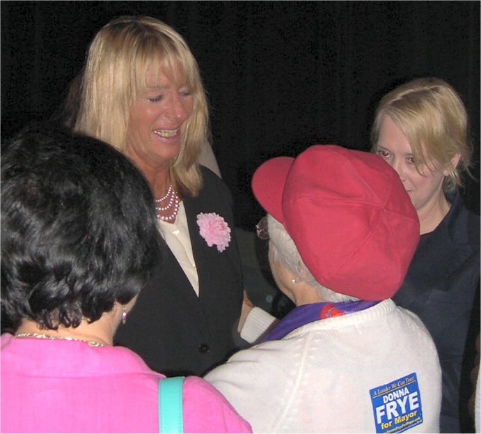 Donna Frye talking to supporters after a debate during the San Diego, California mayoral campaign, September 30, 2005